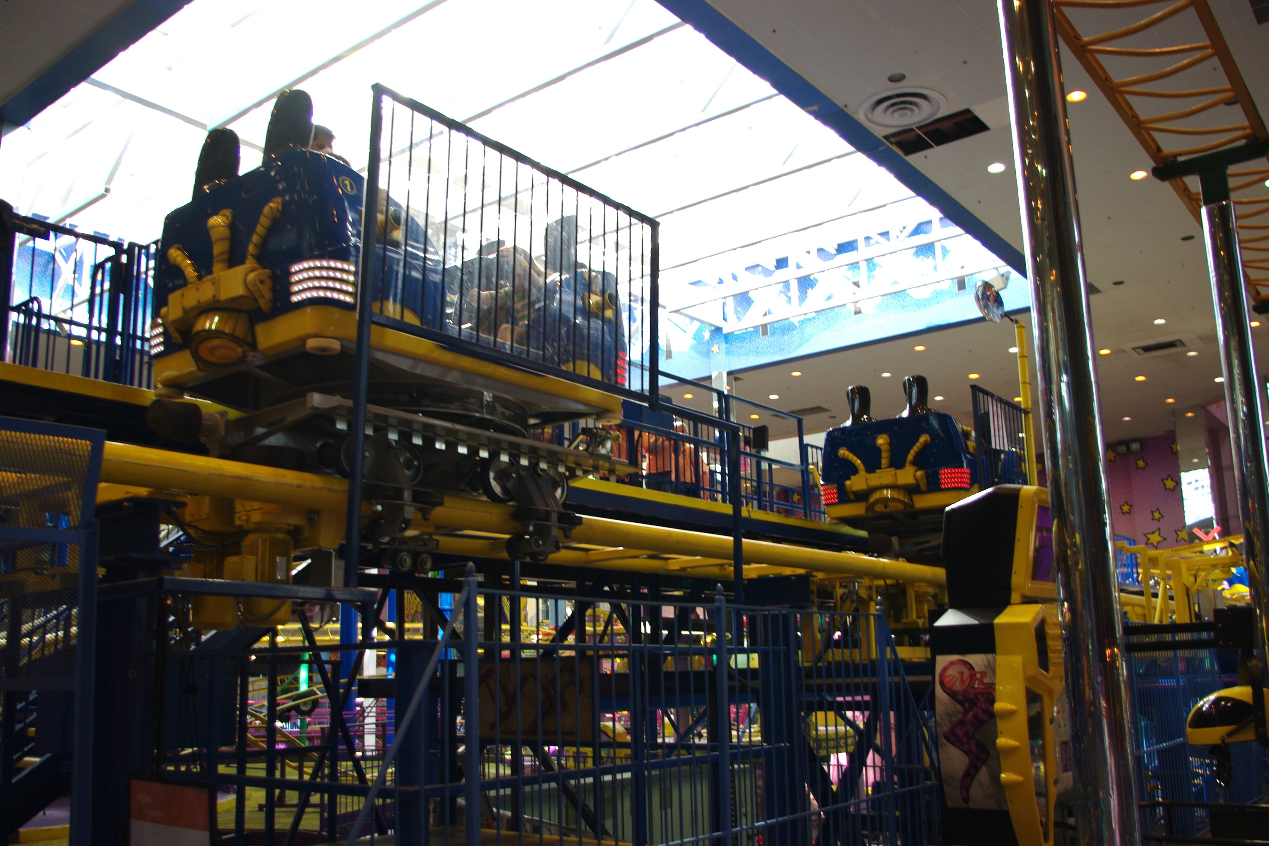 The spinning roller coaster Galaxy Orbiter in Galaxyland.